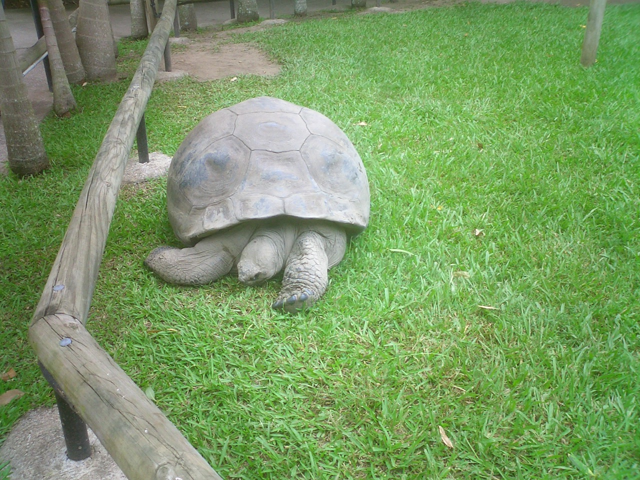 Harriet was the oldest living animal on the planet. She died at 176 years old in 2006. Lived at the Australia Zoo. Photo by Raffi Kojian.